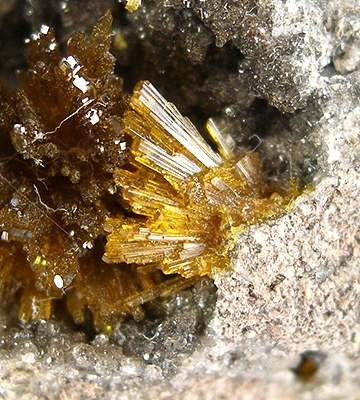 Uranophane - alpha Locality: Rössing Mine, Arandis, Swakopmund District, Erongo Region, Namibia (Locality at ) Size: 5.6 x 3.3 x 3.2 cm. Sharp crystals of intense yellow uranophane, to 4mm, make this protected vug a significant specimen for the species for Namibia. Rossing produces lots of boltwoodite as a radioactive, but few uranophanes. Ex. Charlie Key.